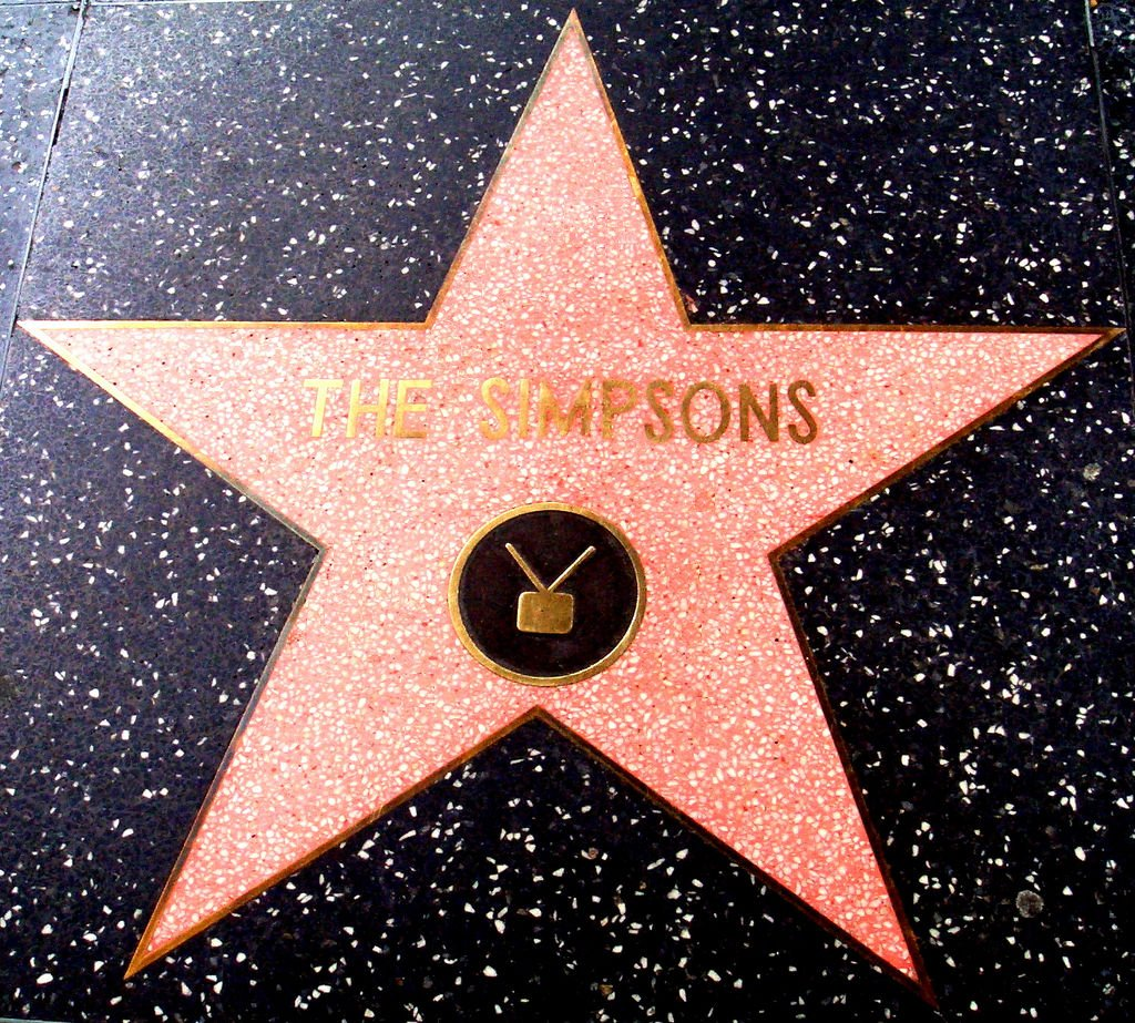 The Simpsons. Star. Walk of Stars. LA